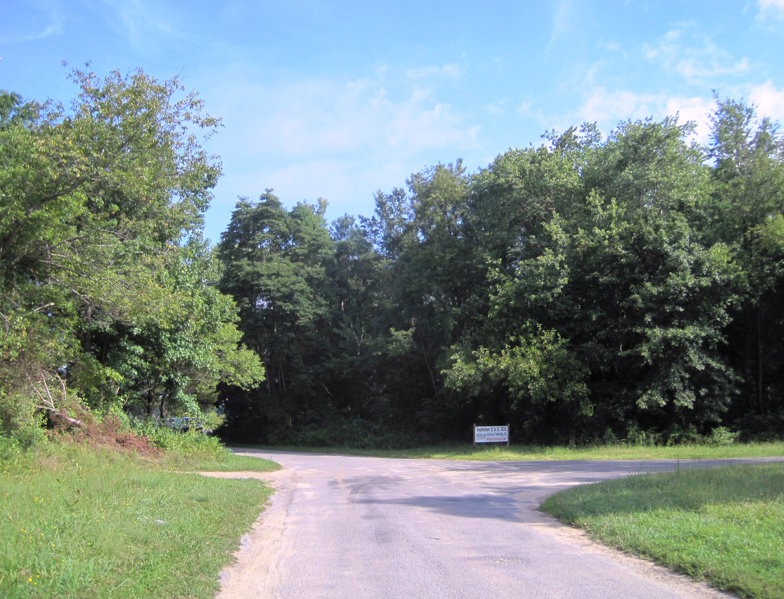 Photo of Cooleys Corner, New Jersey, an unincorporated community within Upper Freehold Township. Photo taken along roads within the Assunpink Wildlife Reserve at the site of the settlement.